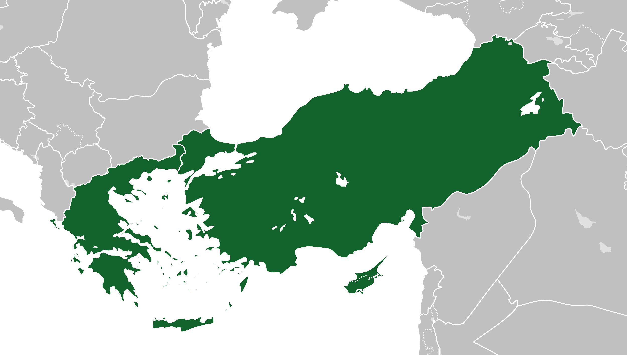 Locator map of a hypothetical union between Greece, Turkey and Cyprus.